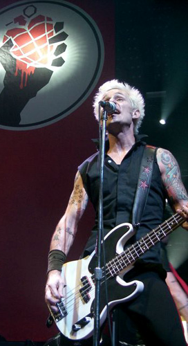 Mike Dirnt, musician, primarily of Green Day. Photograph was taken in Cardiff during the American Idiot tour, using a Casio QV-R40 35mm.